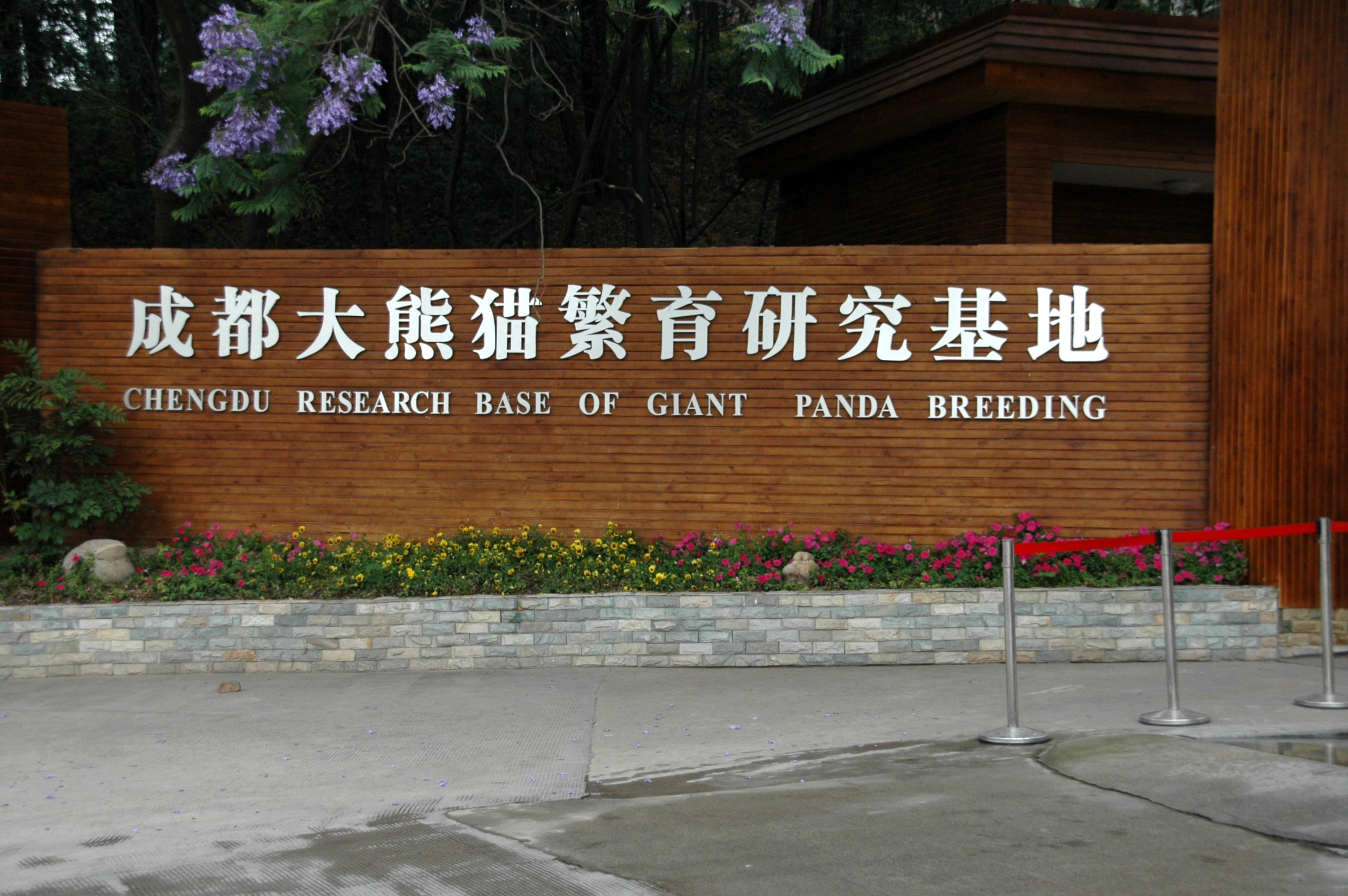 Chengdu Research Base of Giant Panda Breeding